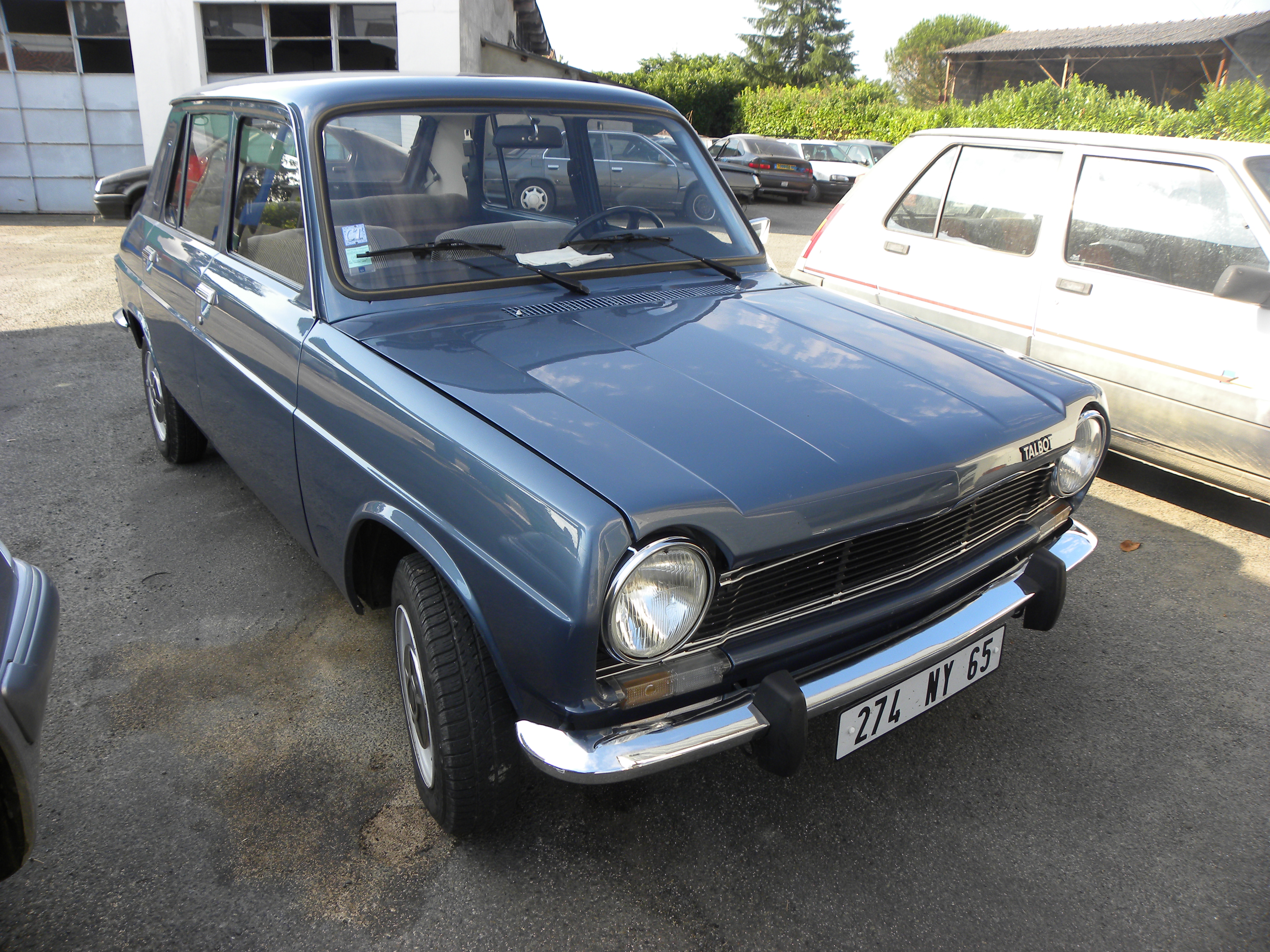 Talbot 1100 LS